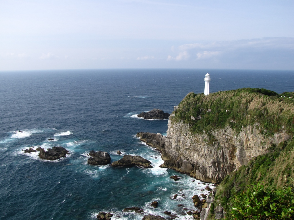 Light house at the Cape Ashizuri. Photographed on a summer morning.